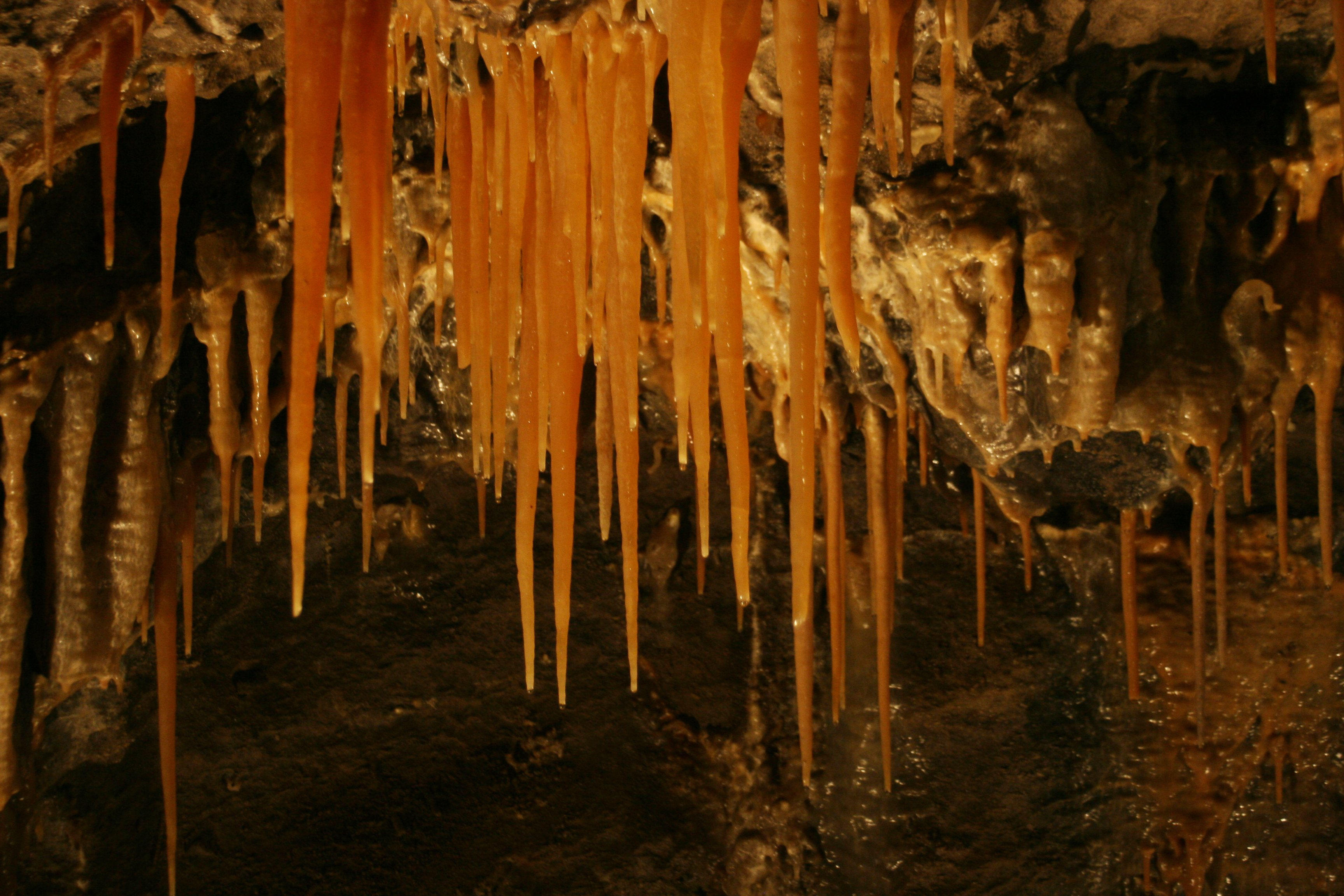 Stalactites in Treak Cliff Cavern.